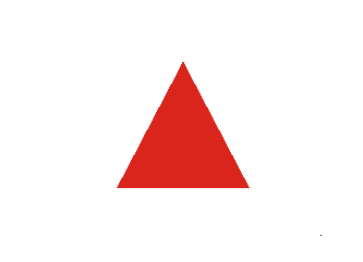 IV Corps, Army of the Potomac, 1st Division Badge